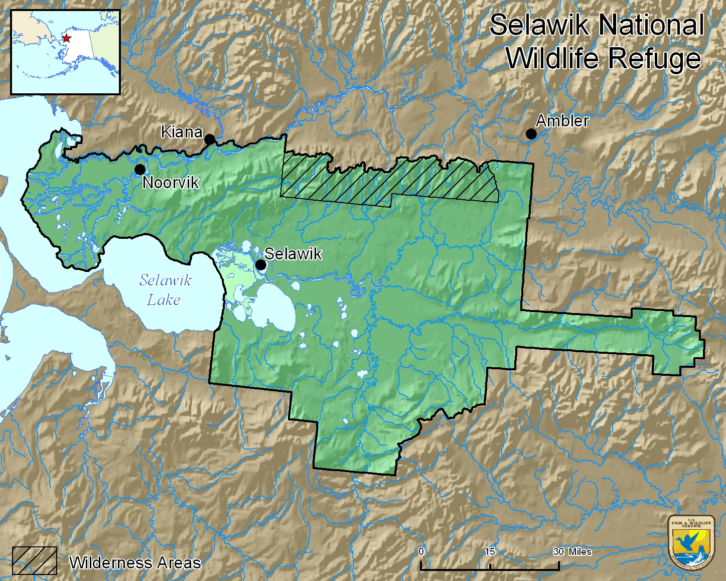 Boundary Map of Selawik National Wildlife Refuge, Alaska